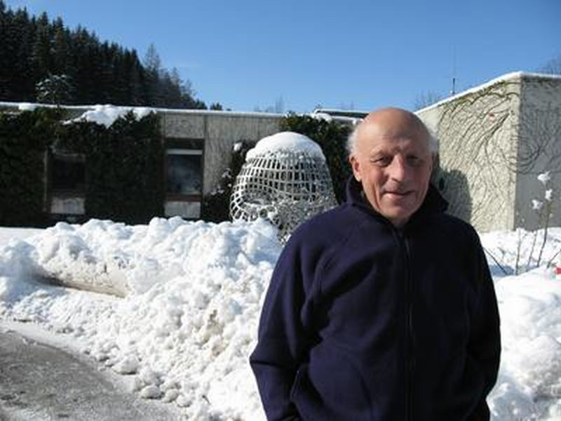 Pierre Cartier, Oberwolfach 2009